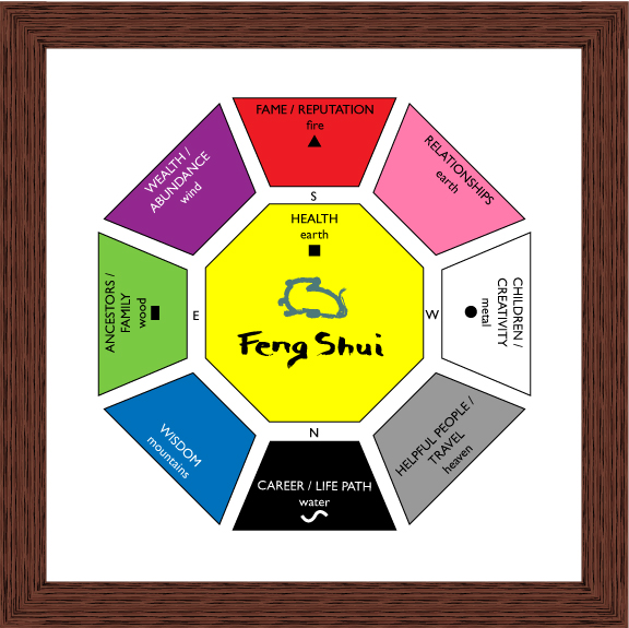 Feng shui bagua with colors, elements, shapes, directions, lucky rat. Printable. Created in Illustrator by Shandi Greve Penrod.